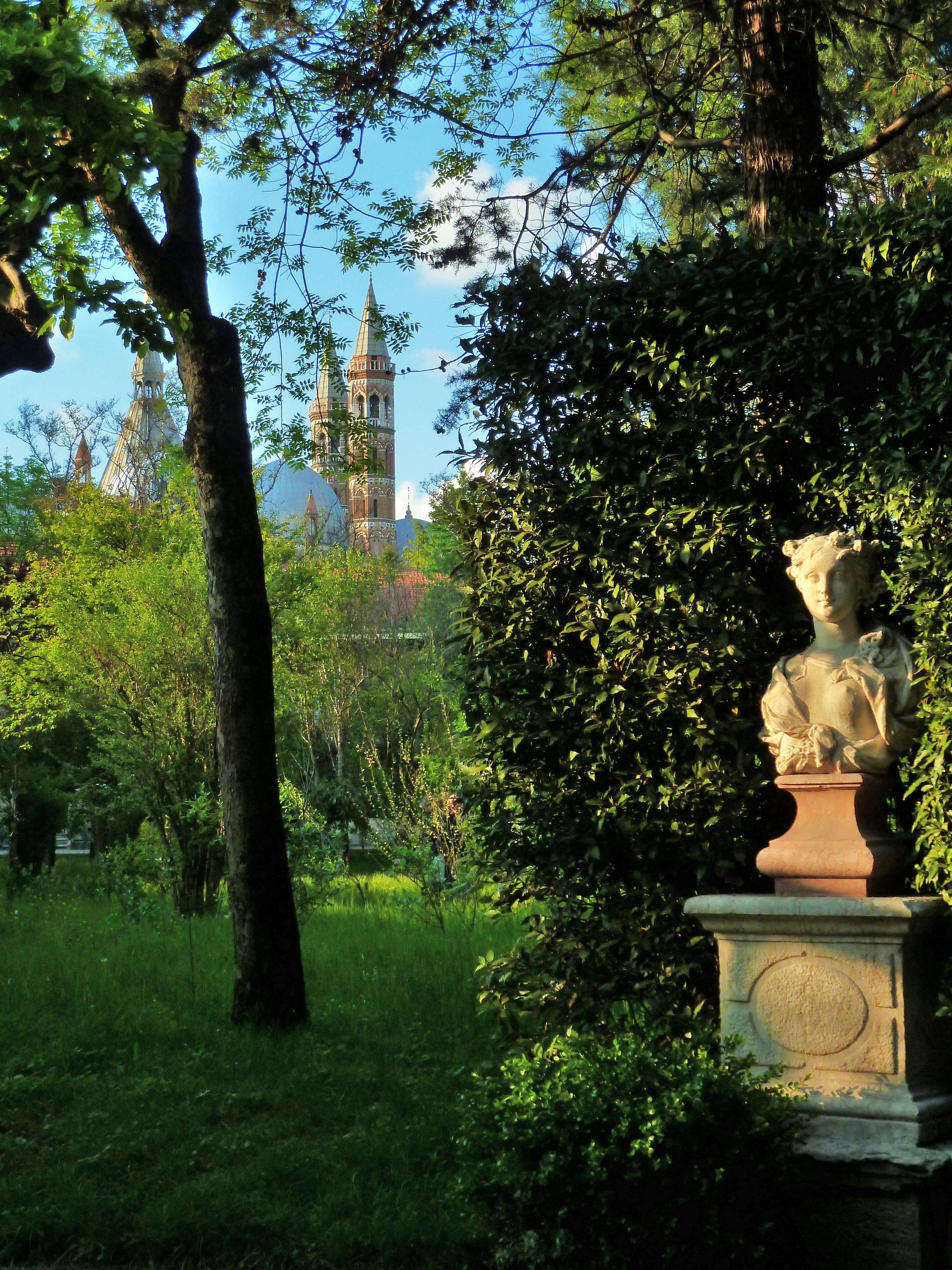 The Botanical Garden of Padua, in the background the Basilica of Saint Anthony